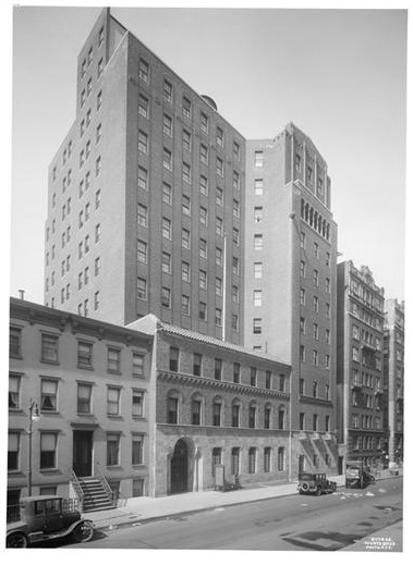 Architecture of the National Bible Institute